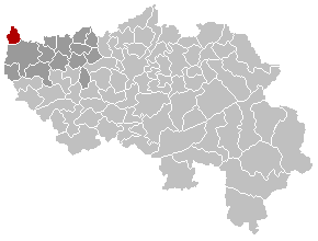 Map, municipality belgium Lincent